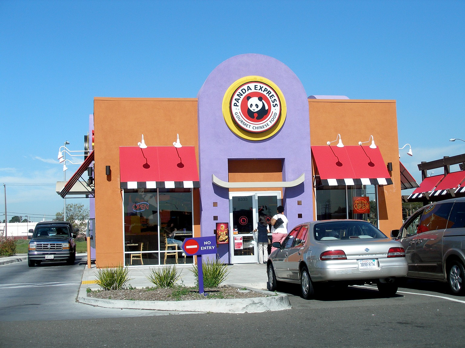 A stand-alone Panda Express restaurant in the parking lot of a Wal-Mart store in Oakland, California. Panda Express formerly preferred locations in mall food courts, stadiums, and universities, but has since switched to building its own stand-alone restaurants.